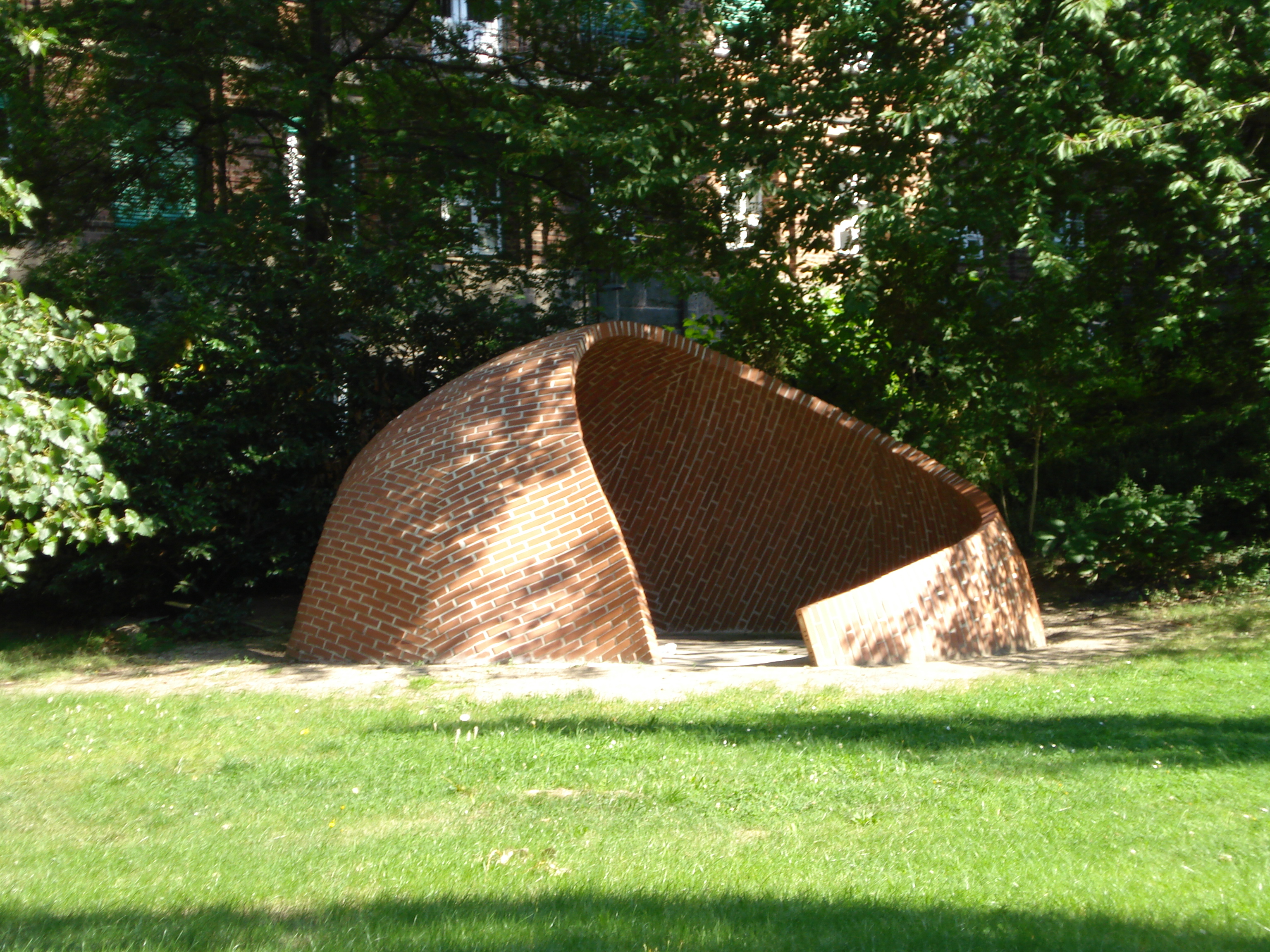 The terrain of the TU Dresden